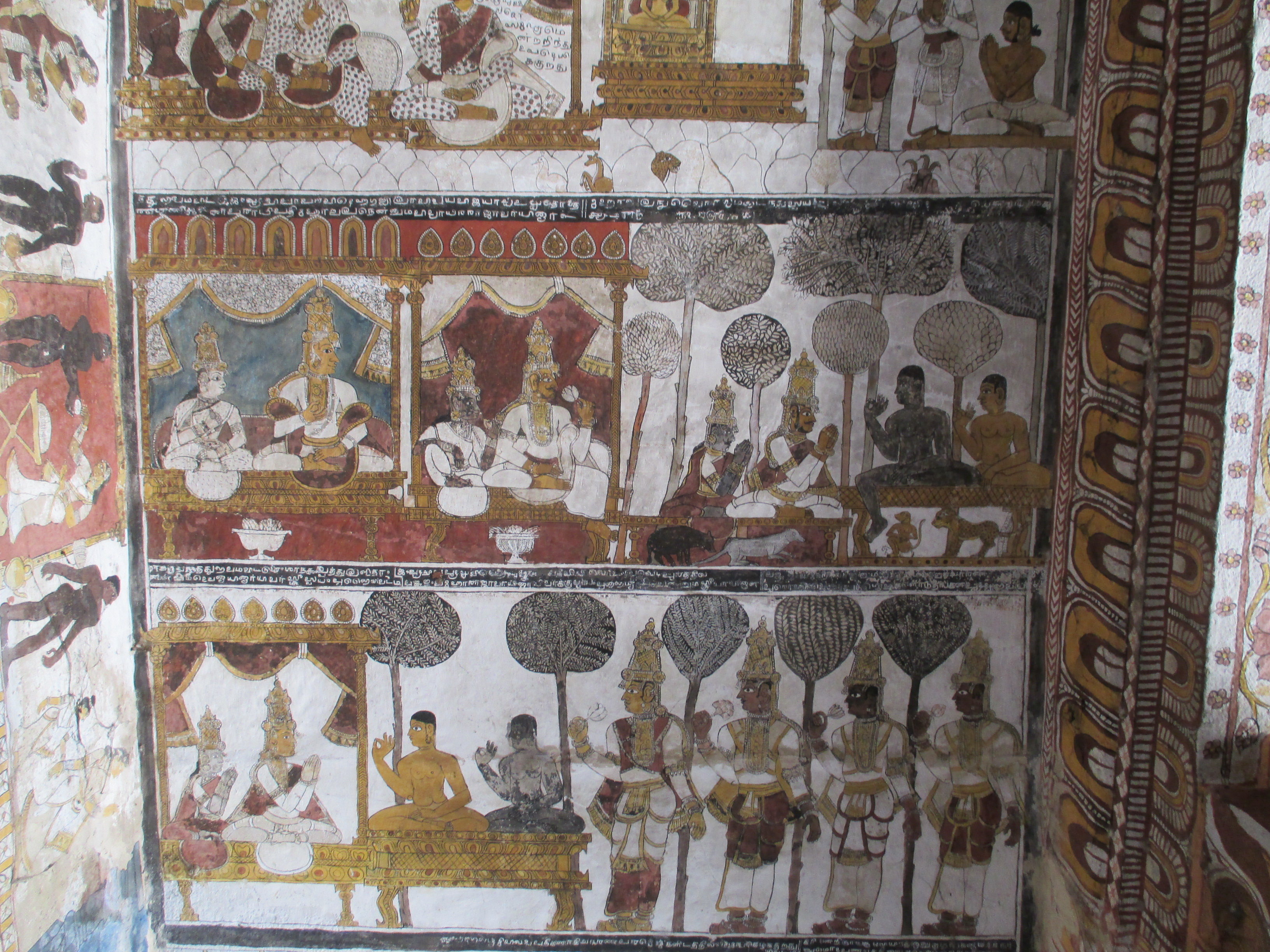 Tiruparuthikundram